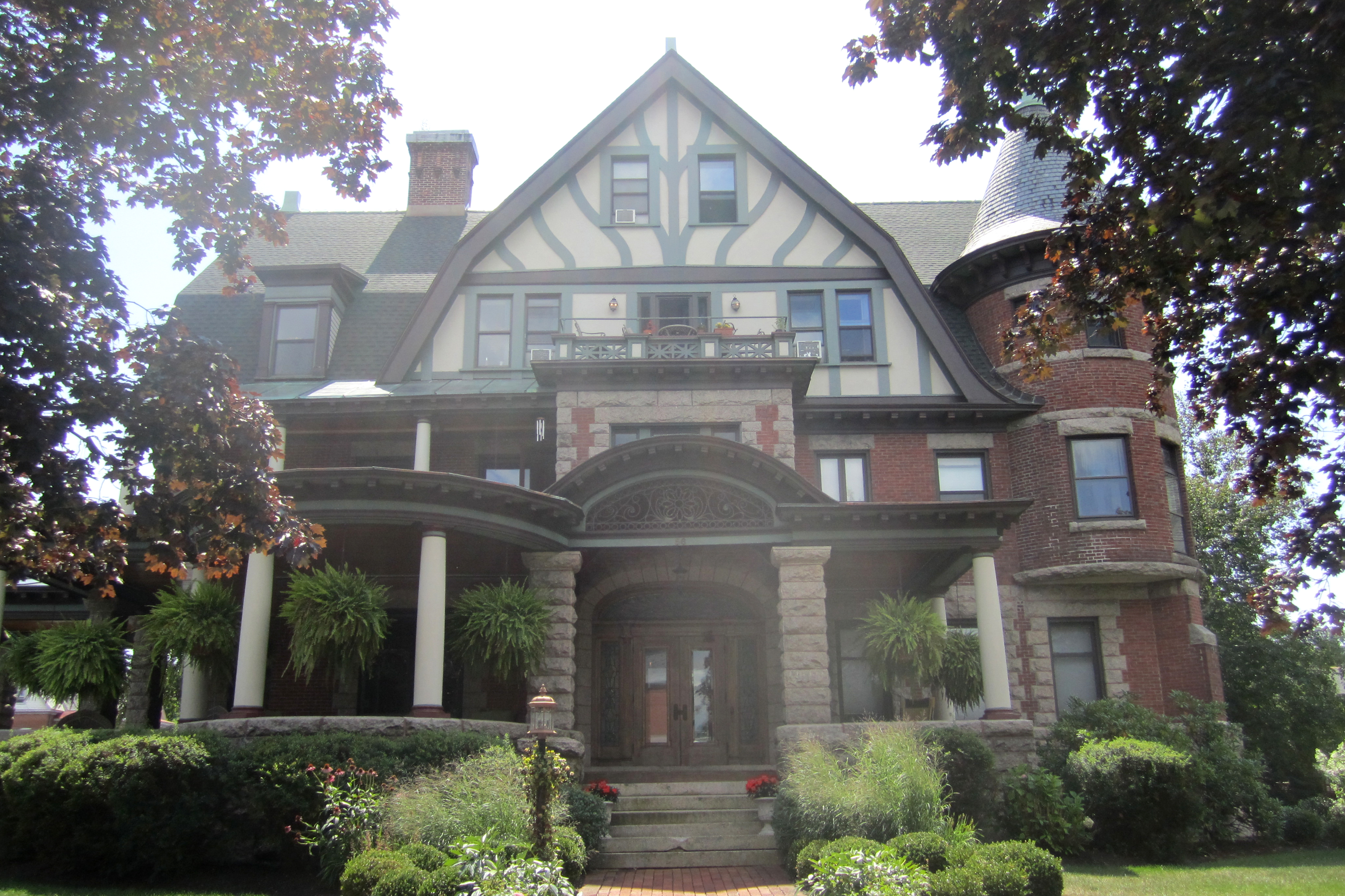 56 Union Ave., Saratoga Springs NY. Designed by Newton Brezee